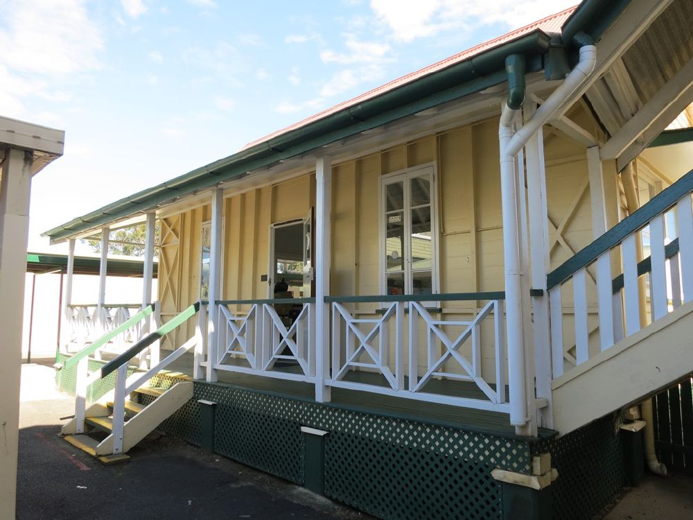 Morayfield State School (2014), front view